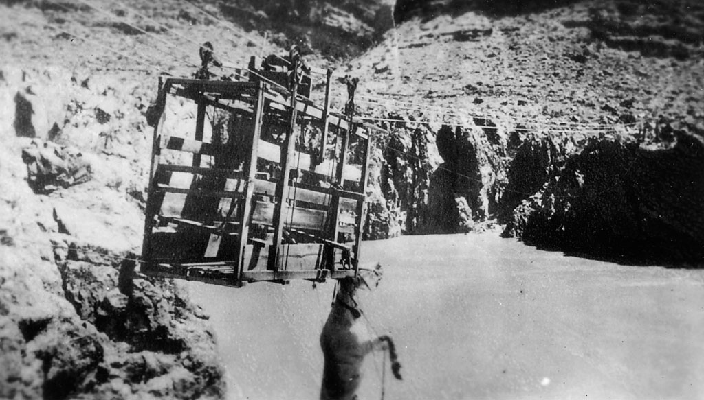 Bass ferry cable break. Ambrose mean's horse hanging from cable car cage. The horse lived. Circa 1917. Photo by bert lazon. Copyright- nps. William W. Bass was the most noteworthy of the early pioneers that came to the rim of Grand Canyon in the 1880s to carve a life and a lifestyle from the wilderness. The contribution of this man to canyon history is difficult to measure. Among the most notable is the construction of more than 50 miles of inner canyon trail, most of which can still be walked today. The South Bass Trail was the foundation of this far-flung system of pathways and today it offers modern backpackers a doorway to a fascinating part of Grand Canyon, steeped in the history Bill Bass lived.